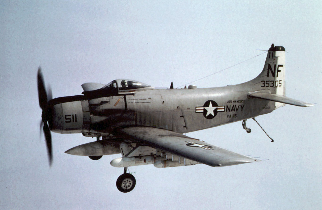 A U.S. Navy Douglas A-1H Skyraider (BuNo 135305) from attack squadron VA-115 Arabs in 1967. VA-115 was assigned to Attack Carrier Air Wing Five (CVW-5) aboard the aircraft carrier USS Hancock (CVA-19) for a deployment to Vietnam from 5 January to 22 July 1967. Following this deployment VA-115 was fist inactive and then transitioned to the Grumman A-6A Intruder.